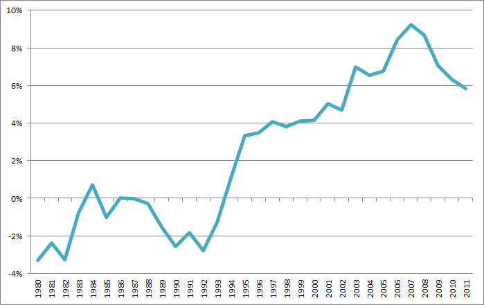 Current account balance of Sweden (1980-2011) in percentage of GDP